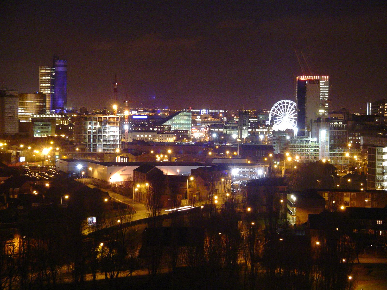 The Manchester skyline from the 15th floor of a tower block.